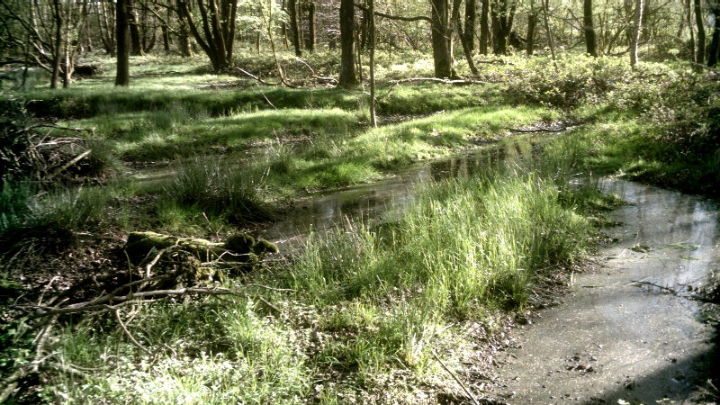 Ponds for retting flax in Bockerter Heide nature reserve, Viersen, Germany.